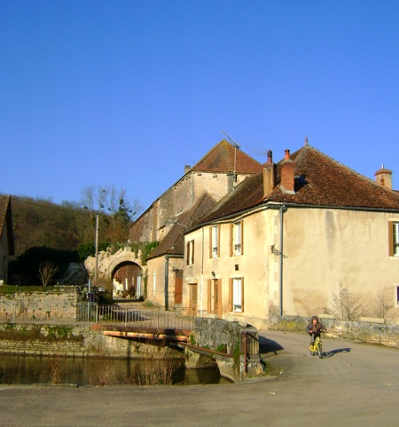 Door of the old castle, L'Isle-sur-Serein (Burgundy, France)